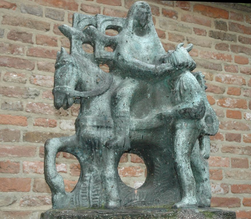 Statue of the missionary Liudger and the blind Frisian singer Bernlef. Lochem, Gelderland, The Netherlands. Made in 1976 by Henk Carlier.